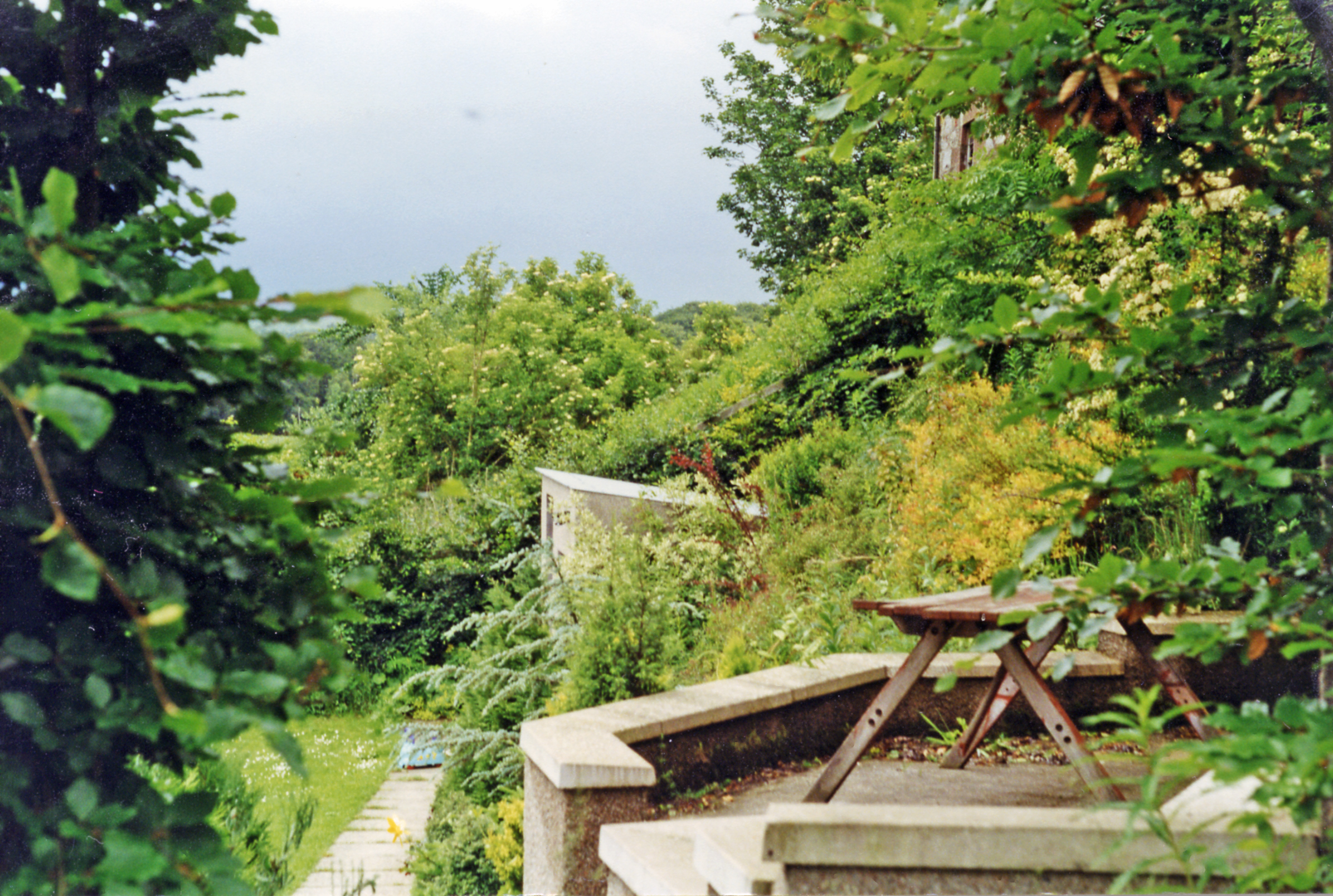 Fyvie station (site/remains), 1997. View southward, towards Aberdeen: ex-GNSR Aberdeen - Dyce - Maud - Fraserburgh line. The station here had been closed from 1/10/51 (goods 3/1/66), but the line carried passengers to Fraserburgh until 4/10/65, freight until 8/10/79.